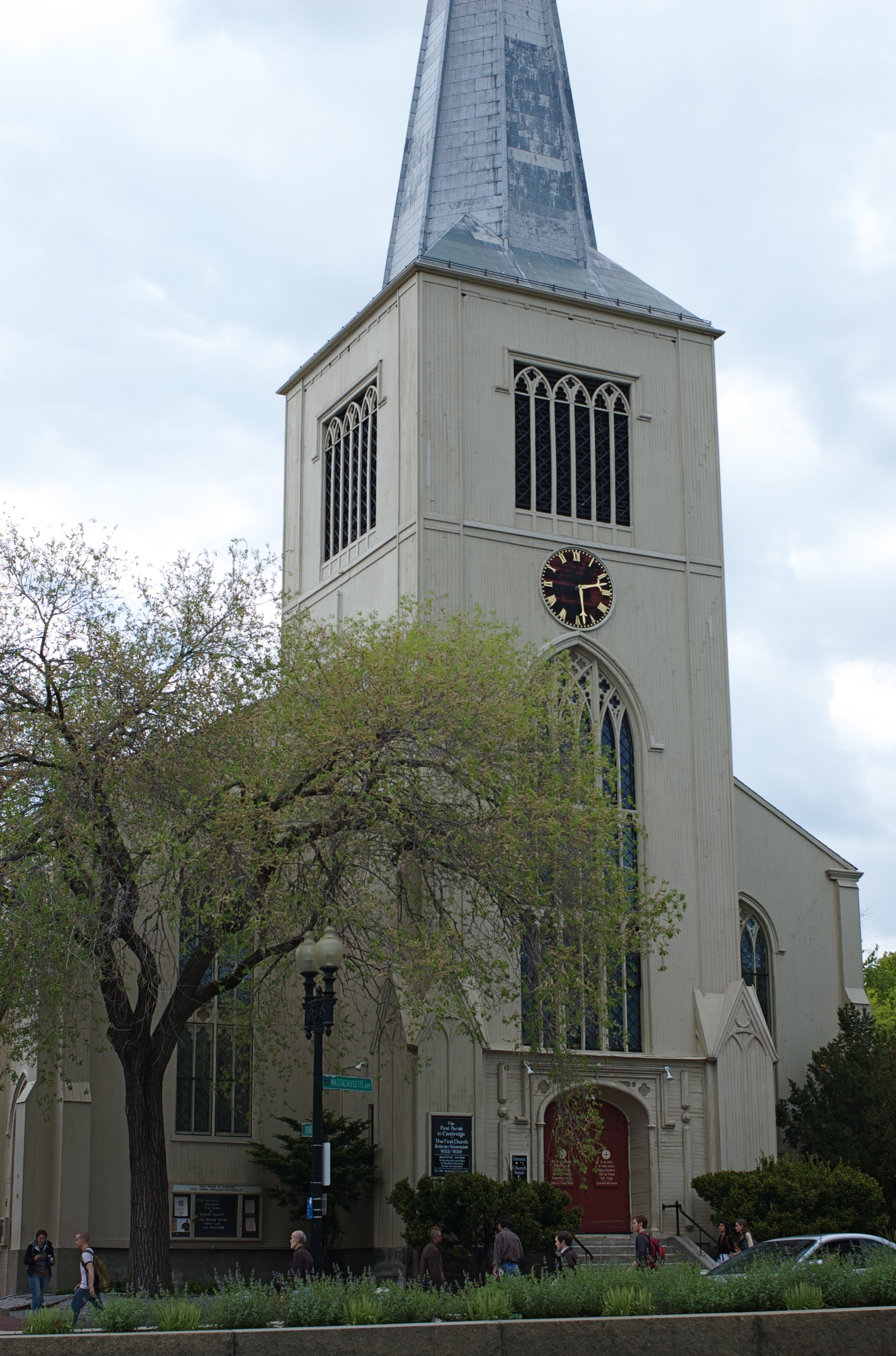 First Parish Unitarian in Harvard Square, Cambridge, Massachusetts.